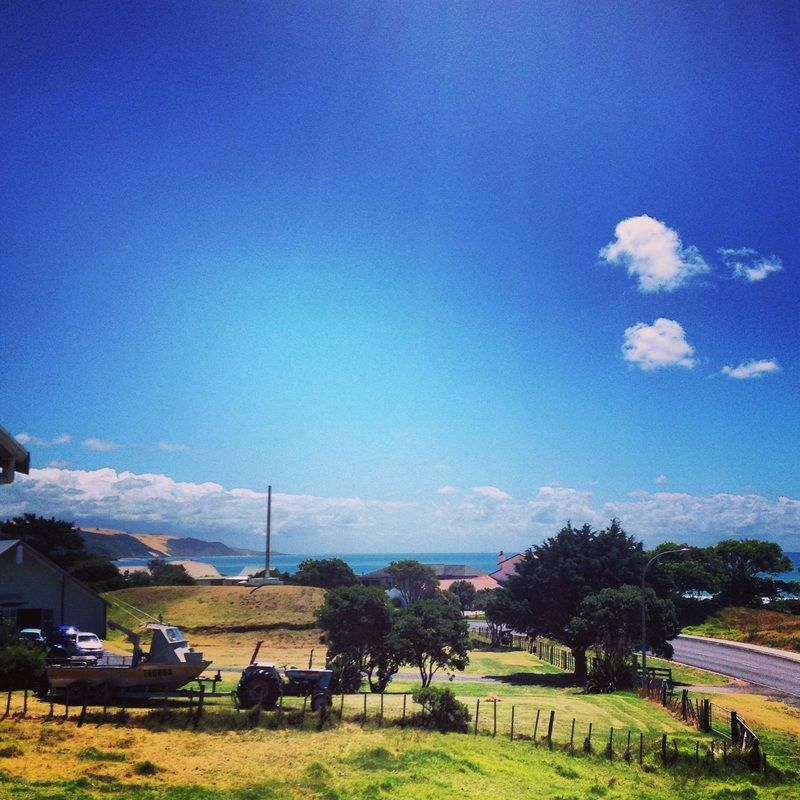 A view of Korou Kore Marae, Foreshore Road, Ahipara.